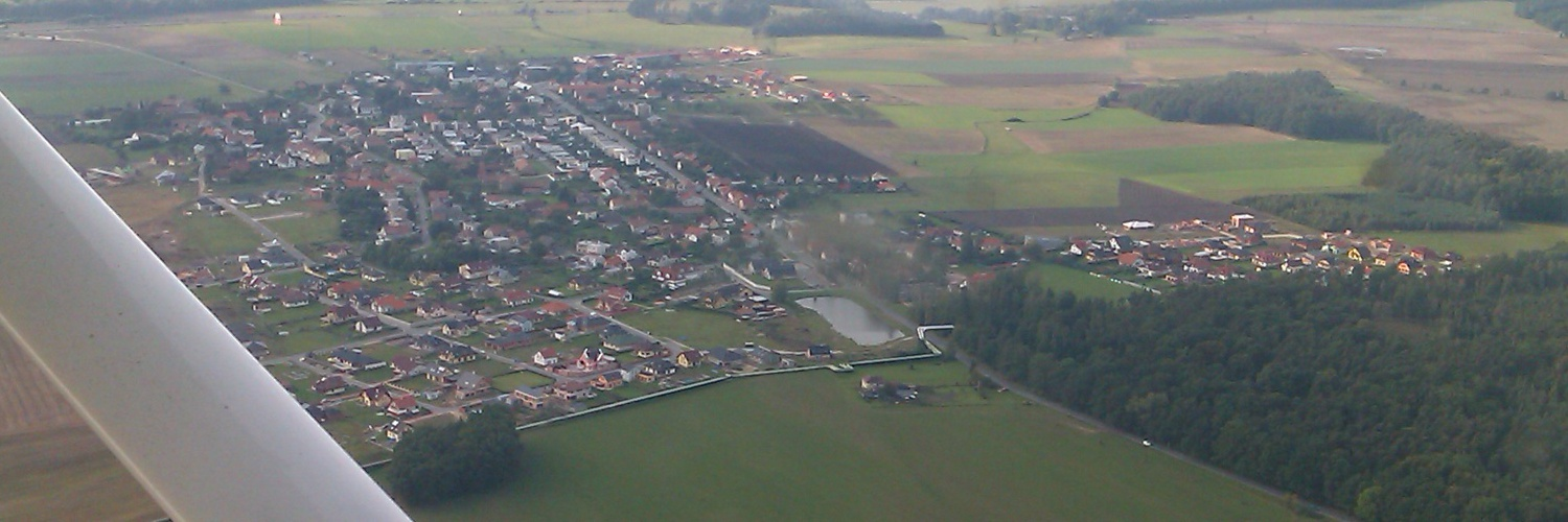 Srch (Czech Republic) - air photoEsperanto: Srch (Ĉeĥio) - aerofoto